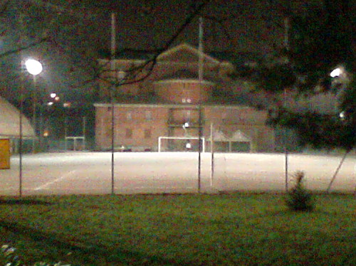 Sacred Heart Church and the Soccer Field behind it